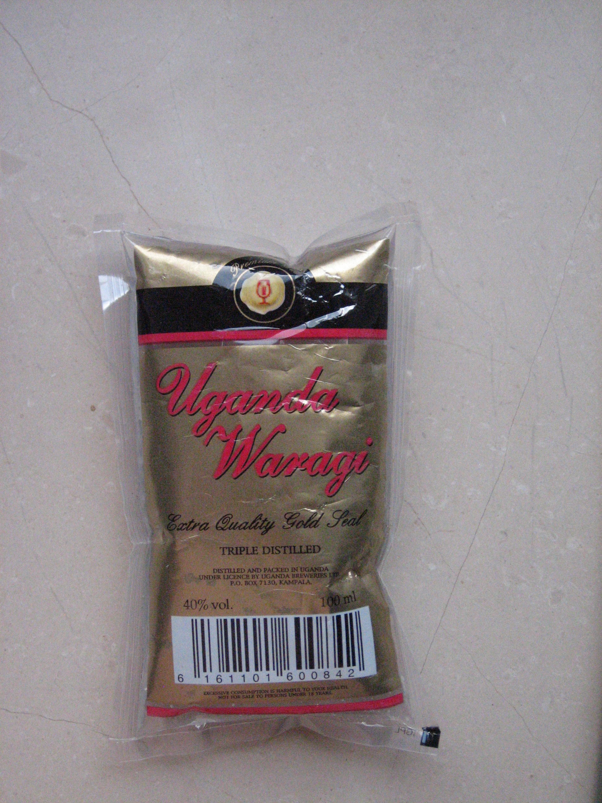 A small bagful of Uganda Waragi.